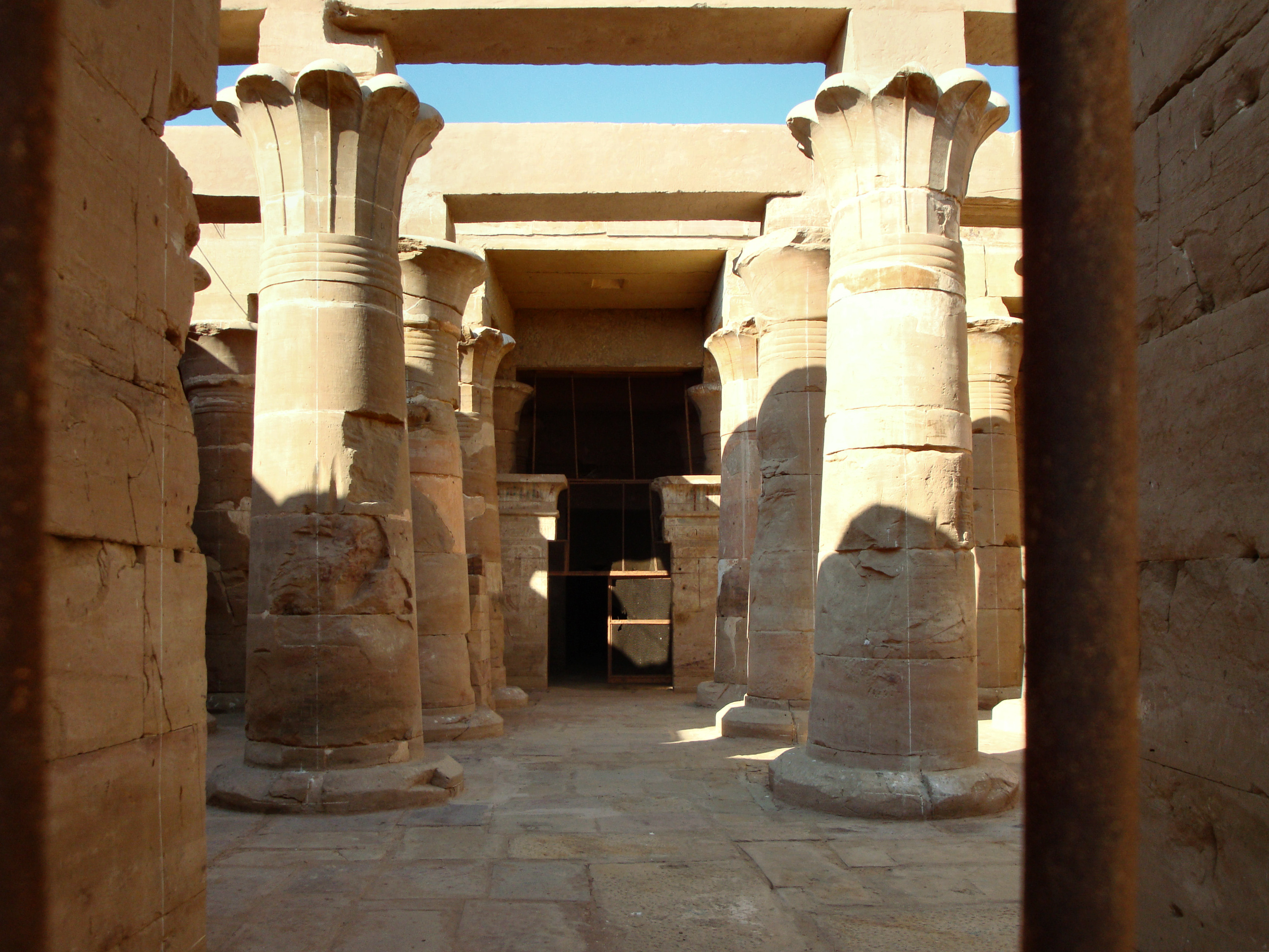 The Temple of Hibis was first founded by pharaoh Psamtik II (595-589 BC) of the 26th Saite dynasty of Egypt. It is perhaps the best preserved temple from the Late Period of Egypt and is uniquely situated at Kharga Oasis in Western Egypt. The temple was decorated by the Persian conqueror Darius I. Subsequent additions to the size of the temple were later made by the 30th dynasty kings Nectanebo I and II.